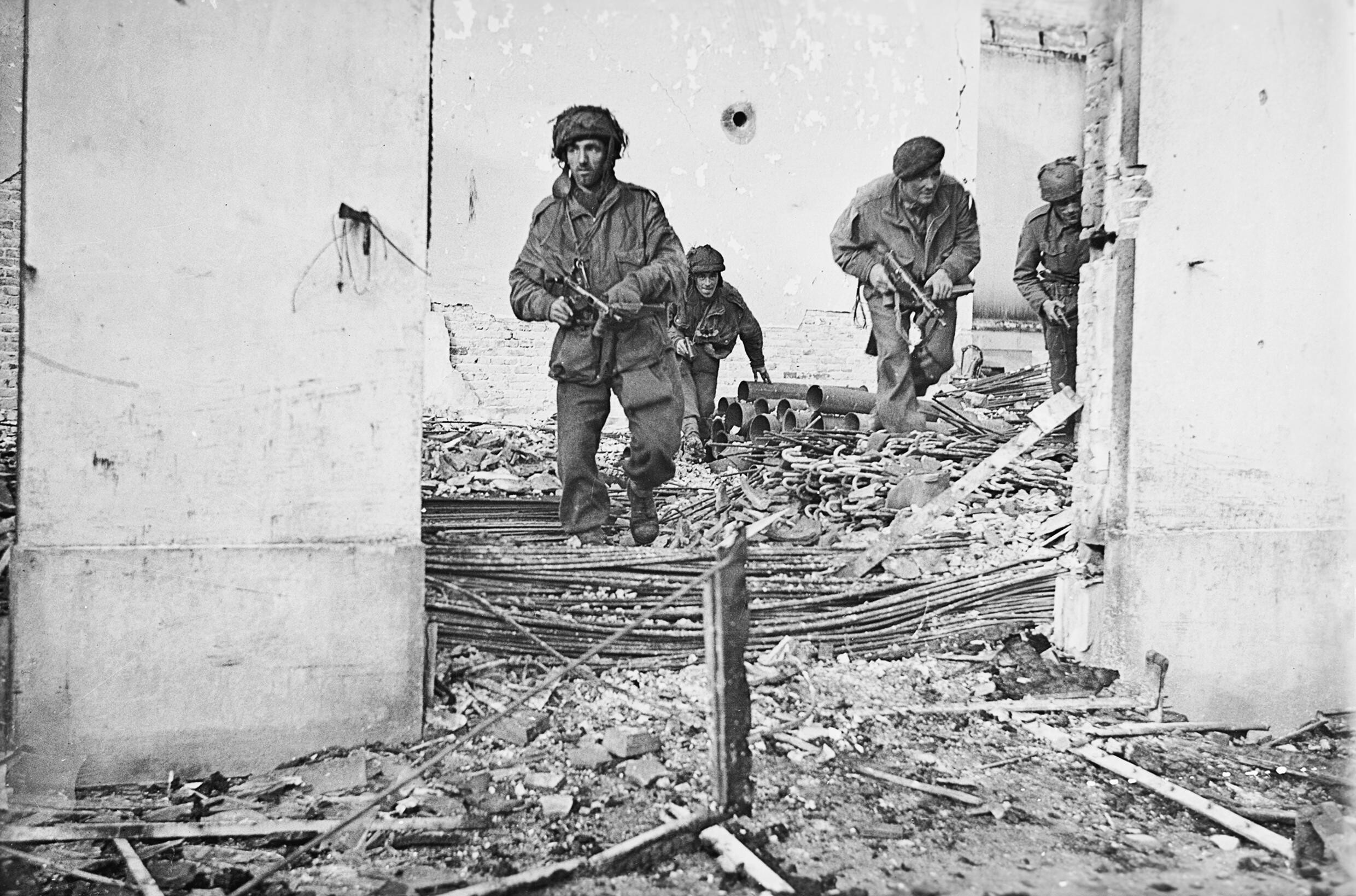 Four British paratroopers moving through a shell-damaged house in Oosterbeek to which they had retreated after being driven out of Arnhem.